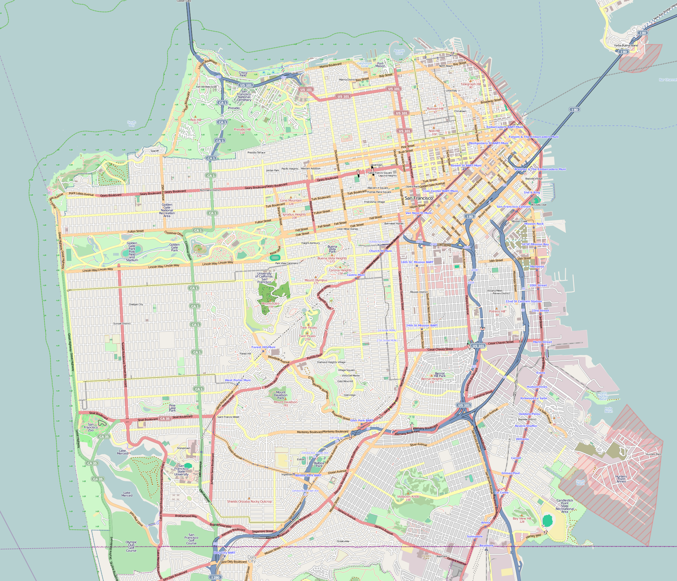 This map of San Francisco and vicinity was created from OpenStreetMap project data, collected by the community. This map may be incomplete, and may contain errors. Don't rely solely on it for navigation.